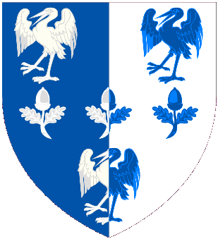 Shield of arms of The Lord Gibson